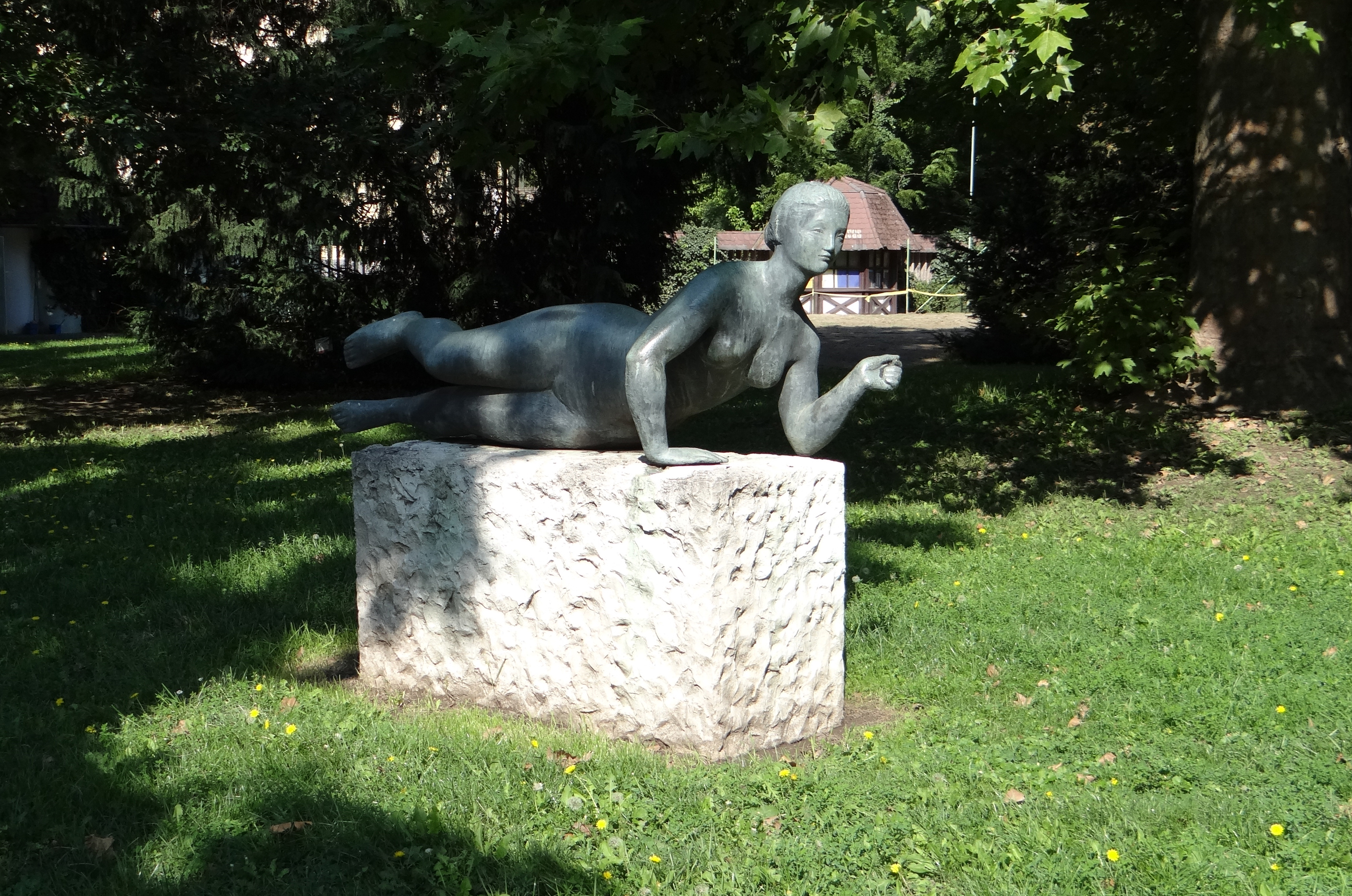 Mária Osváth: Reclining woman. 1969. Statue in the Park of Castle Thermal Bath in Gyula, Hungary.